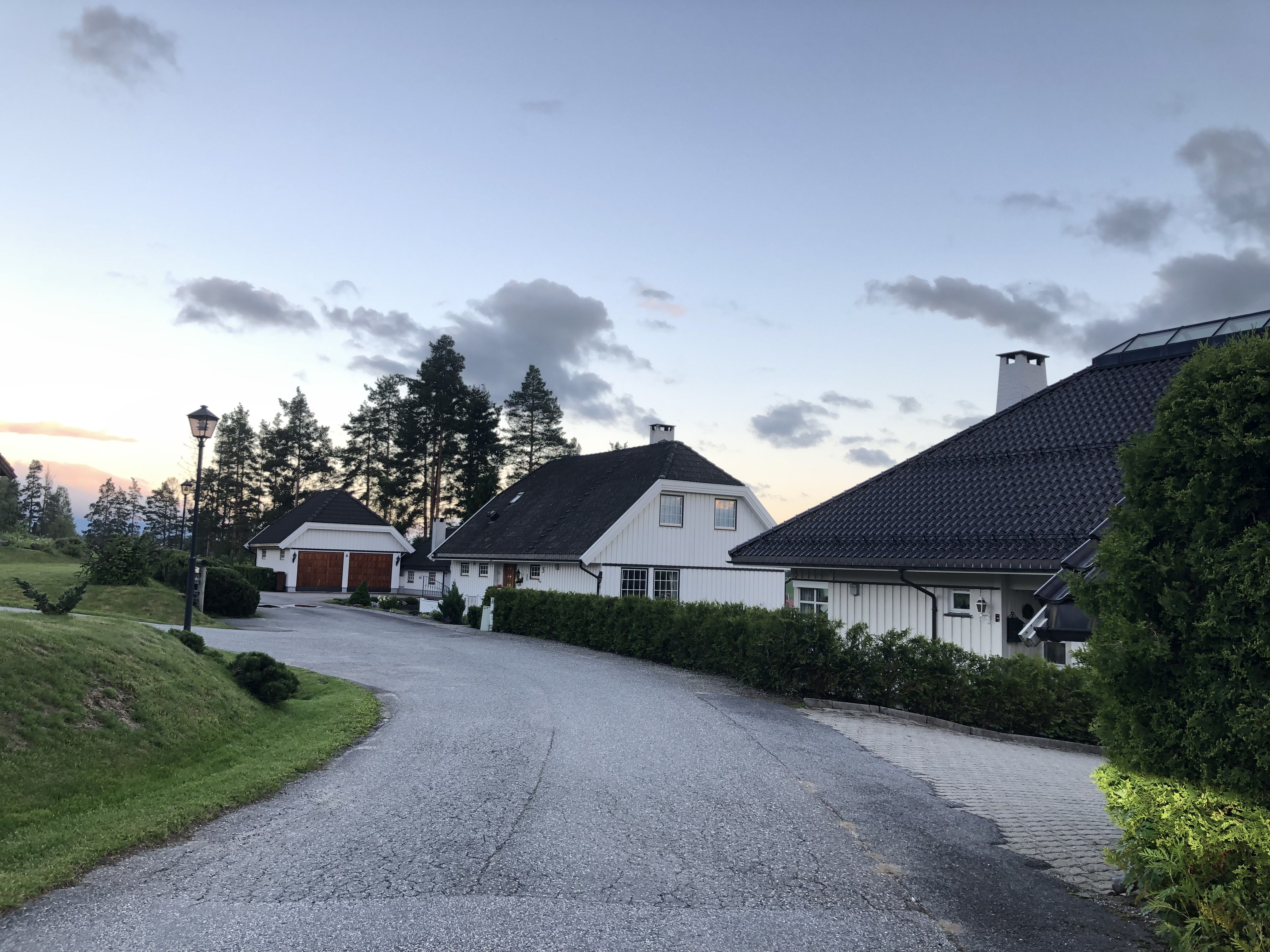 The street Veienkroken in Hønefoss, Norway.